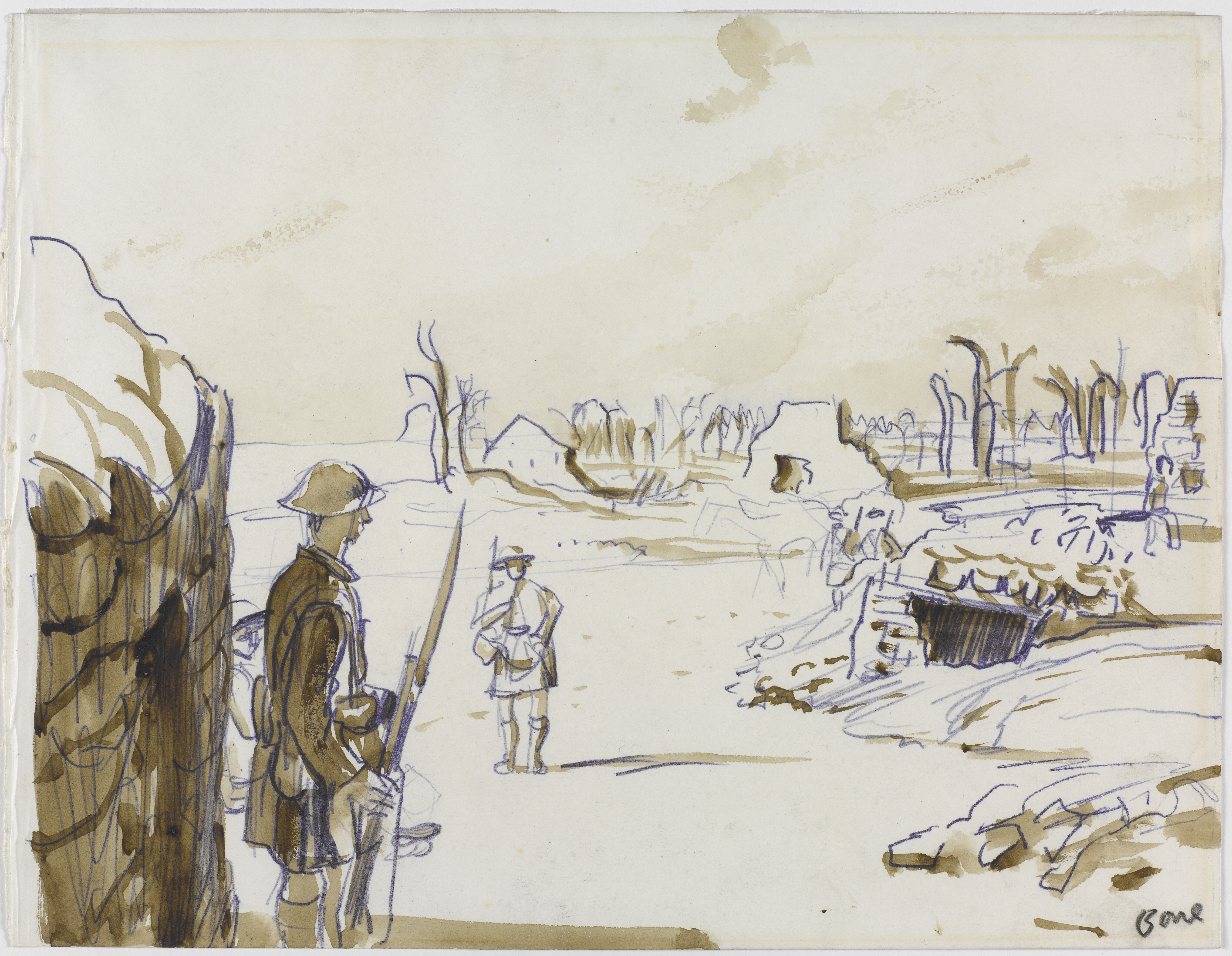 The Ruins of Contalmaison - Headquarters of the Brigadier-general in the foreground